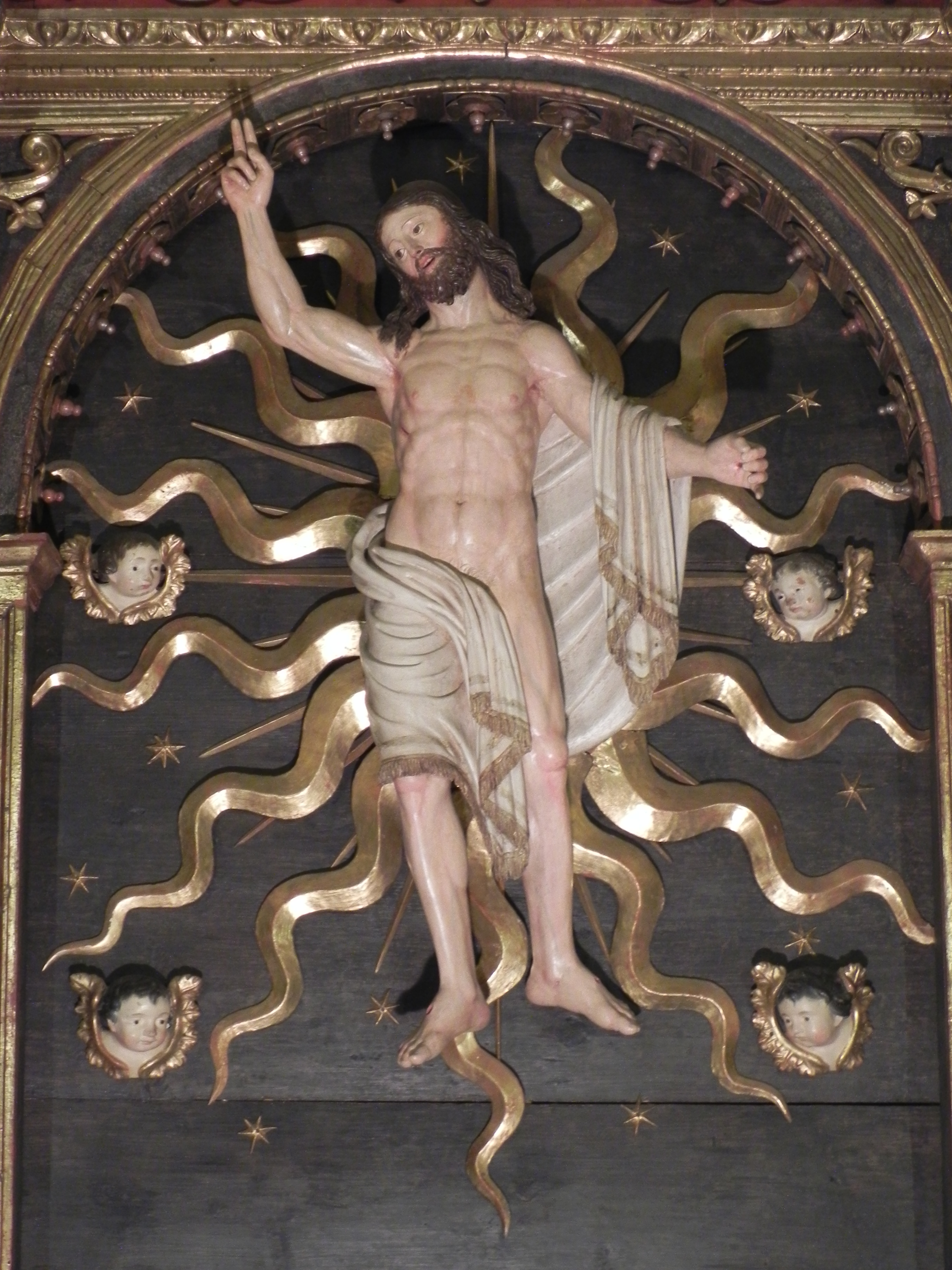 Pietro Bussolo (sculptor of the XV century) "RESURRECTED CHRIST (detail)" - sculpture in polychrome wood, around 1515 Church of Santa Maria Nascente Gandellino (Gromo San Marino - BG) ITALY